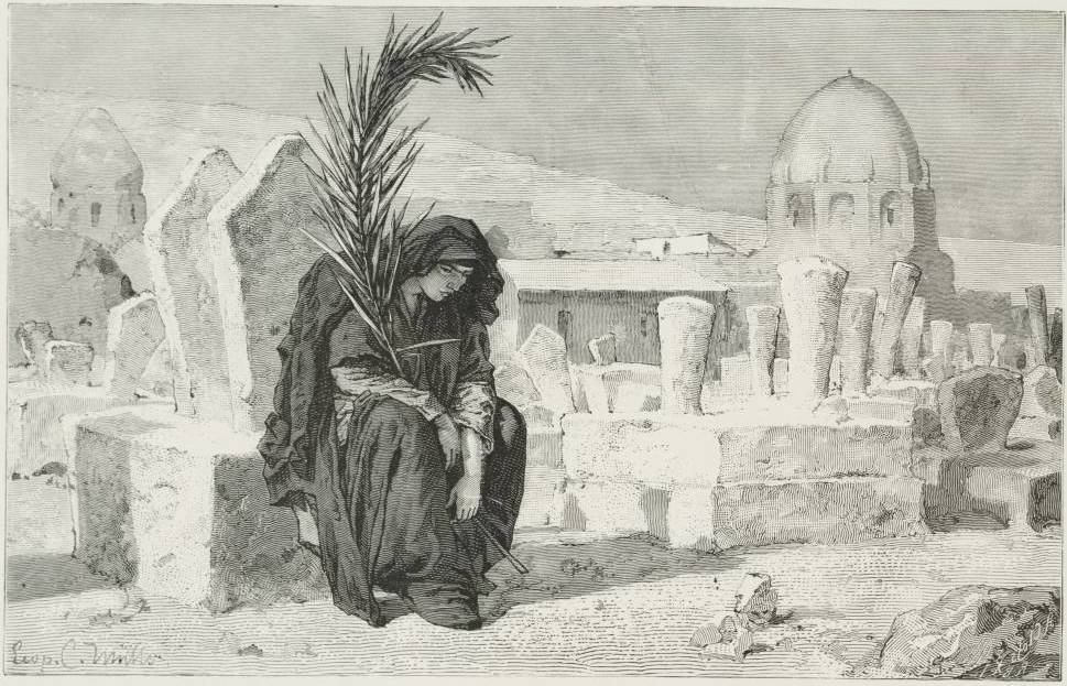 A woman, in heavy black robes and holding a palm frond, sitting in a cemetery.